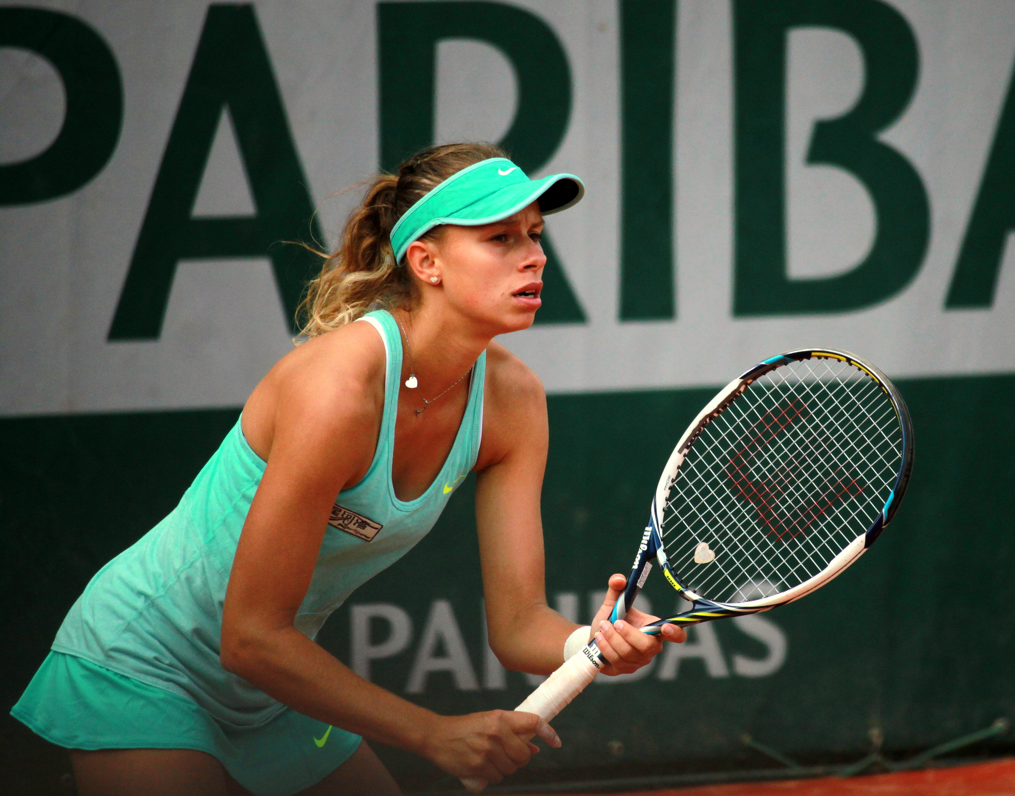 Magda Linette during her doubles first round match at the 2015 French Open. Match was played on Court 14.